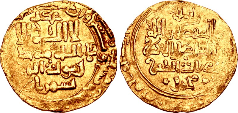 Coin of the Bavandid ruler Shahriyar IV (r. 1074–1114).